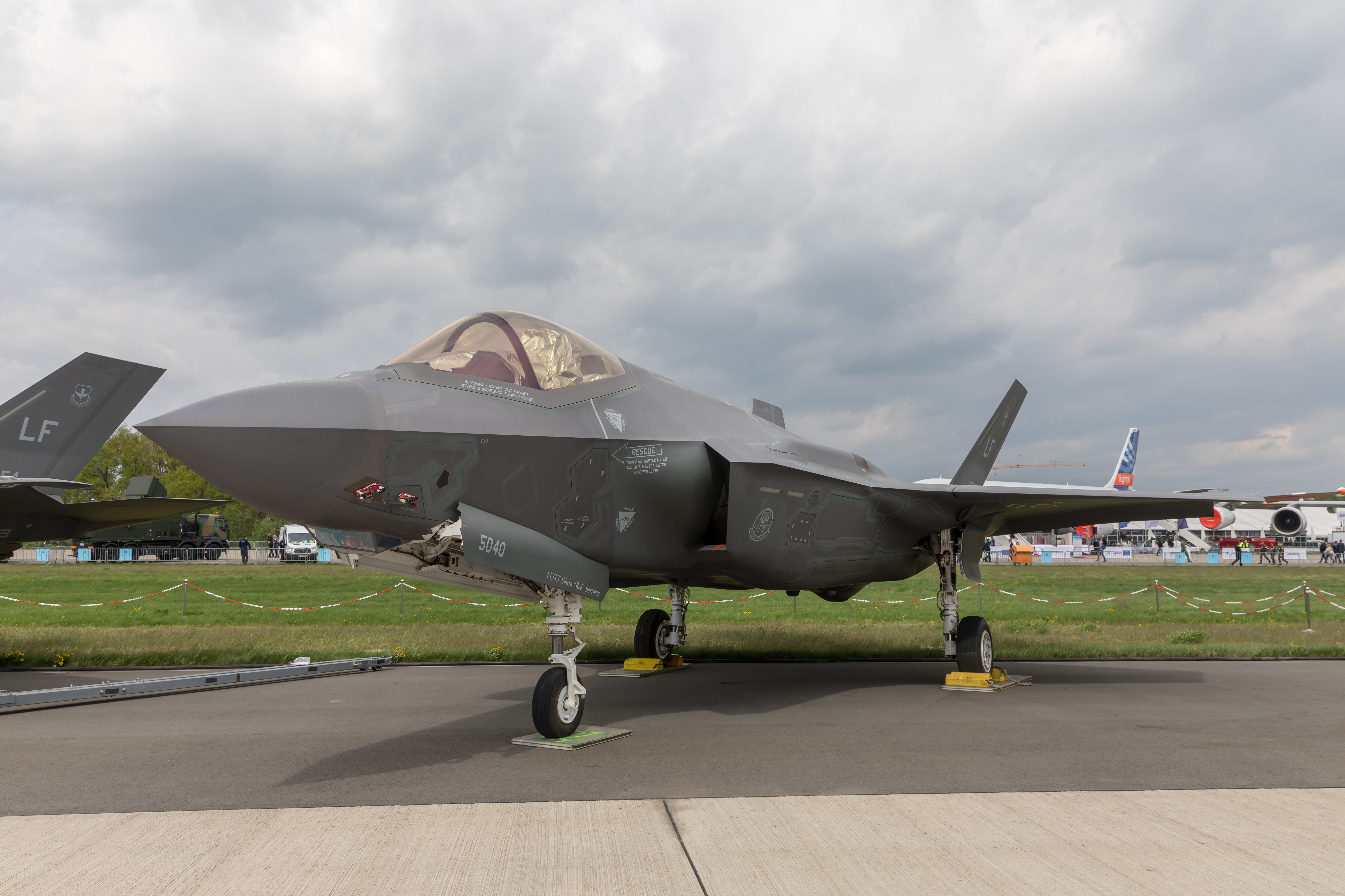 US Airforce F-35A Lightning II at ILA 2018